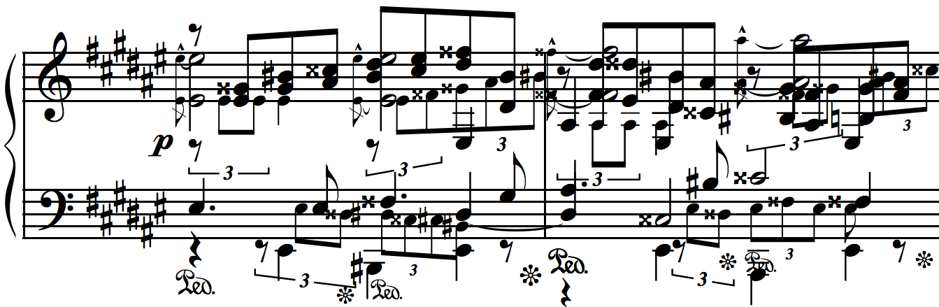 Nine part fugue from Quasi-Faust, the second movement from Grande sonate 'Les quatre âges', composed by Charles-Valentin Alkan. Note: the notation here is imperfect and should not be taken literally.